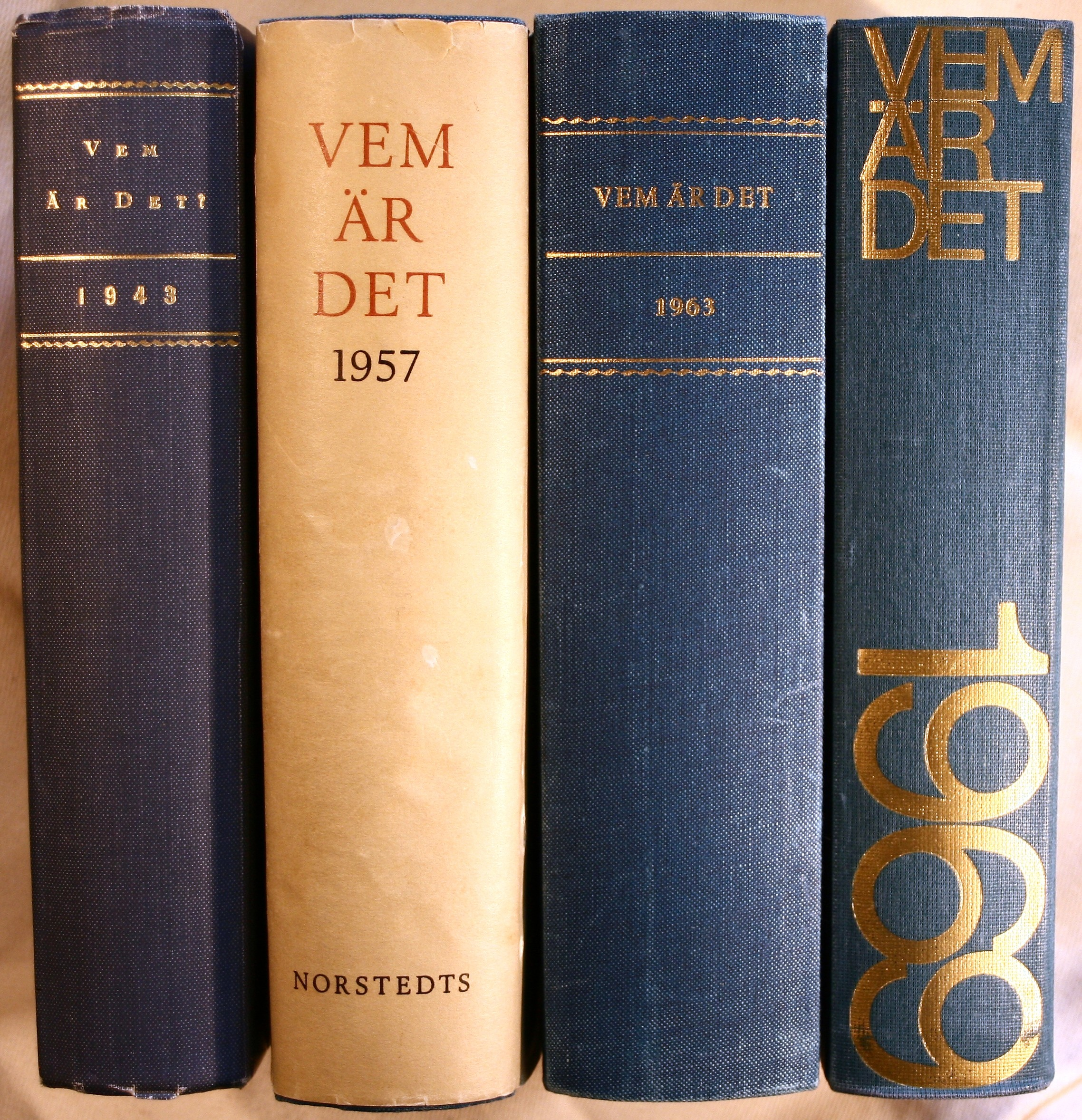 Spines of four editions (1943, 1957, 1963, 1969) of Vem är det, the Swedish who's who. Copyright is not applicable to these spines.